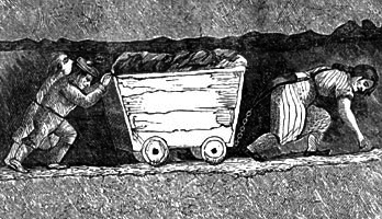 A hurrier and two thrusters moving a corf full of coal